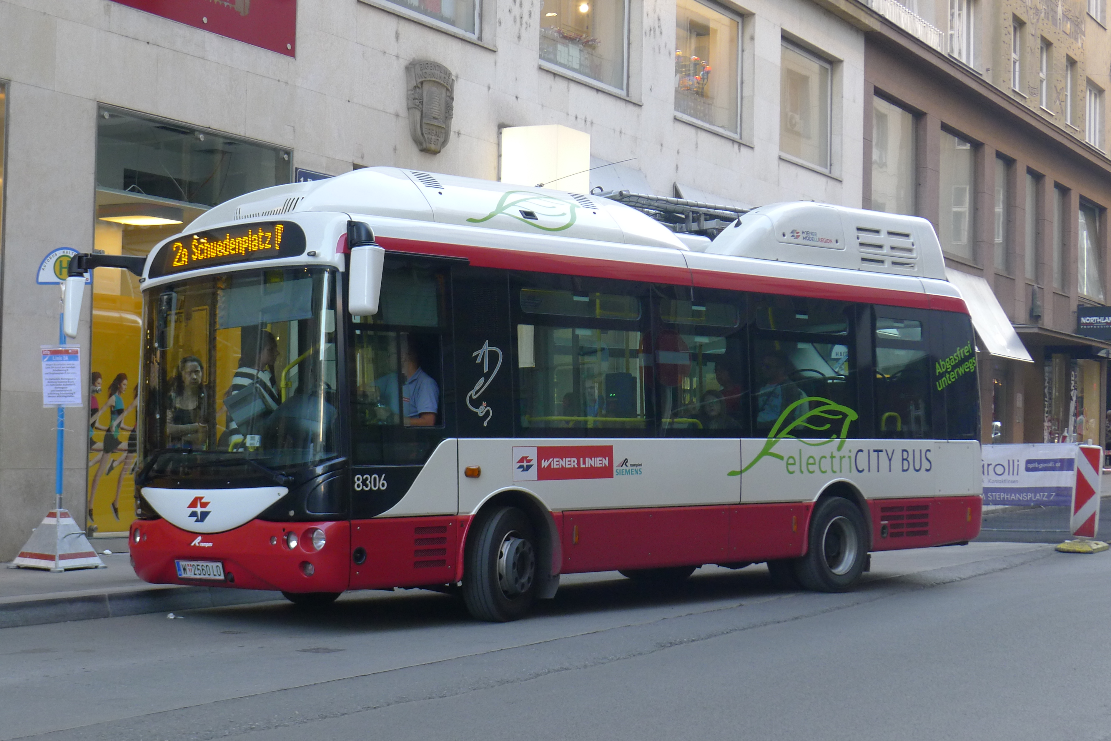 Wiener Linien n.8506